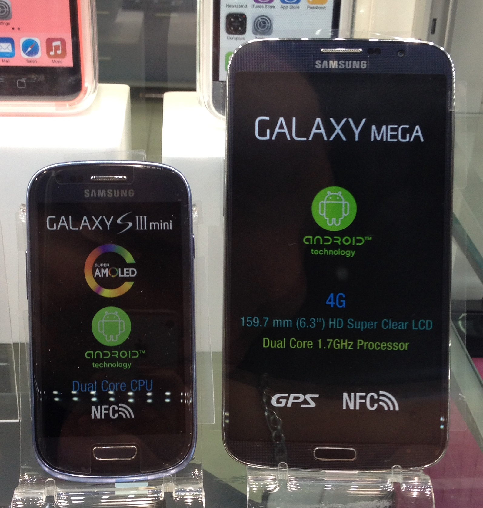 Samsung Galaxy Mega beside Samsung Galaxy S3 Mini